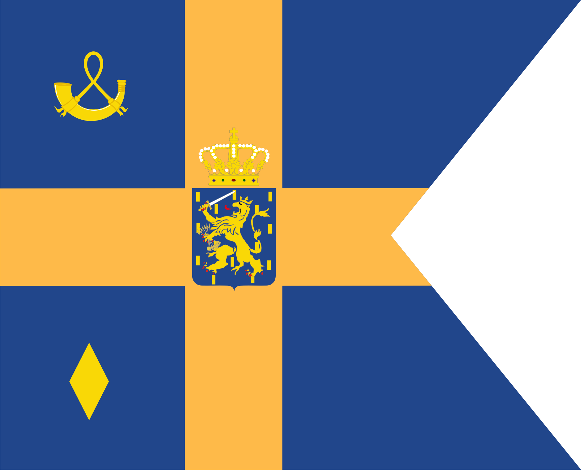 Standard of Laurentien Brinkhorst, Princess of the Netherlands